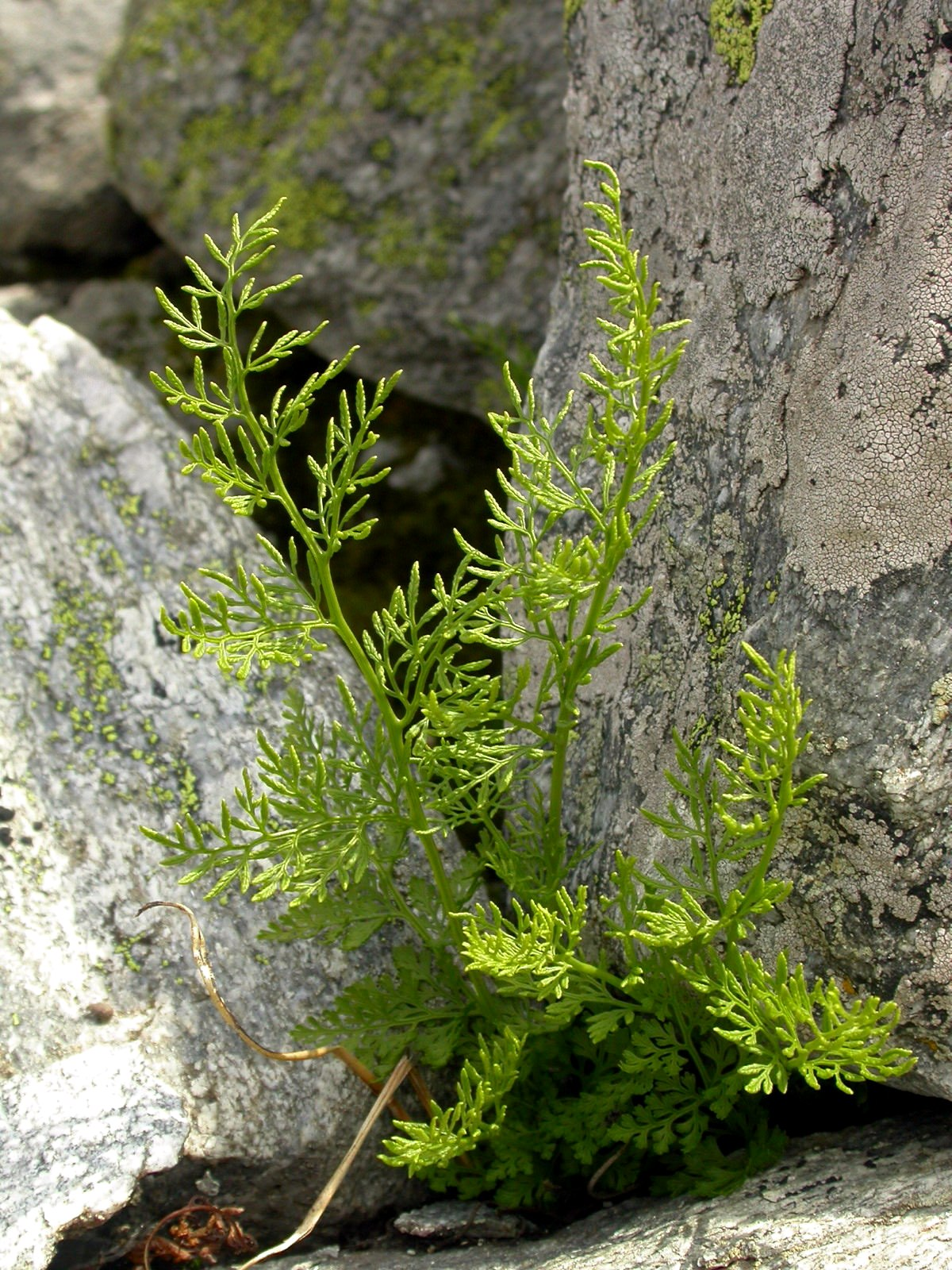 Cryptogramma crispa, Simplon Pass, Switzerland